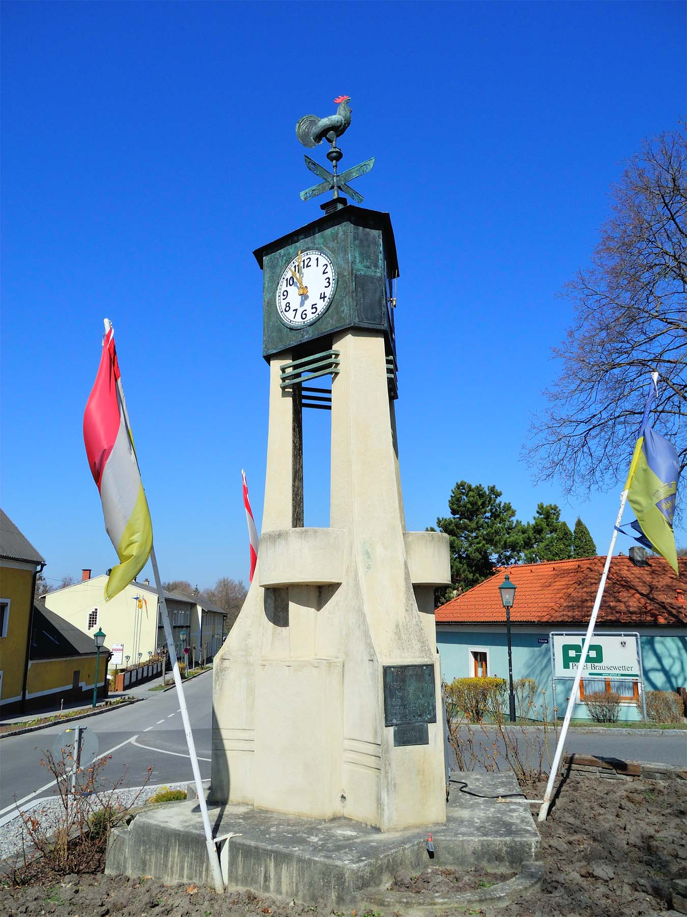 Clock tower in Bad Deutsch Altenburg, Lower Austria, Austria